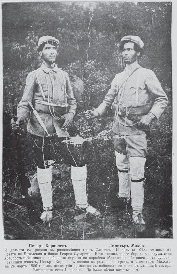 Petar Kirpichev and Dimitar Mihov, both from Sliven, IMARO members of Georgi Sugarev cheta